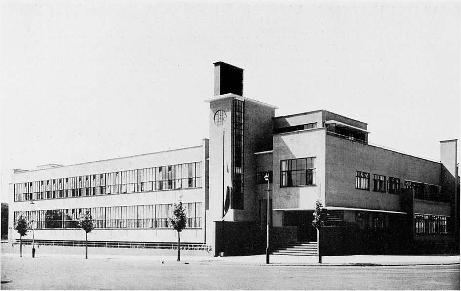 Jan Wils (architect). Office building for the Centrale Onderlinge, Van Alkemadelaan 700, The Hague. 1933-1935.